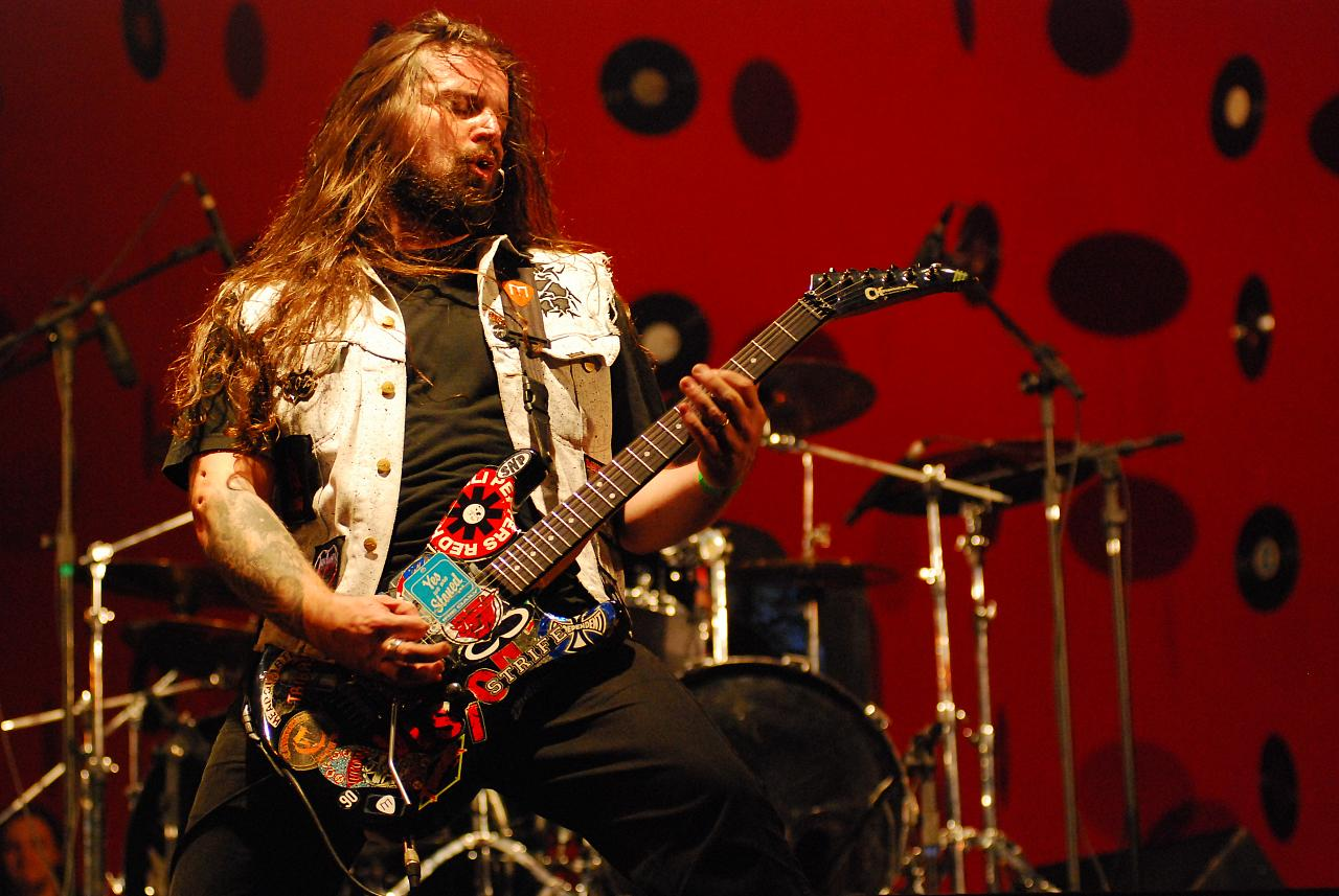 Andreas Kisser, of the thrash metal band Sepultura